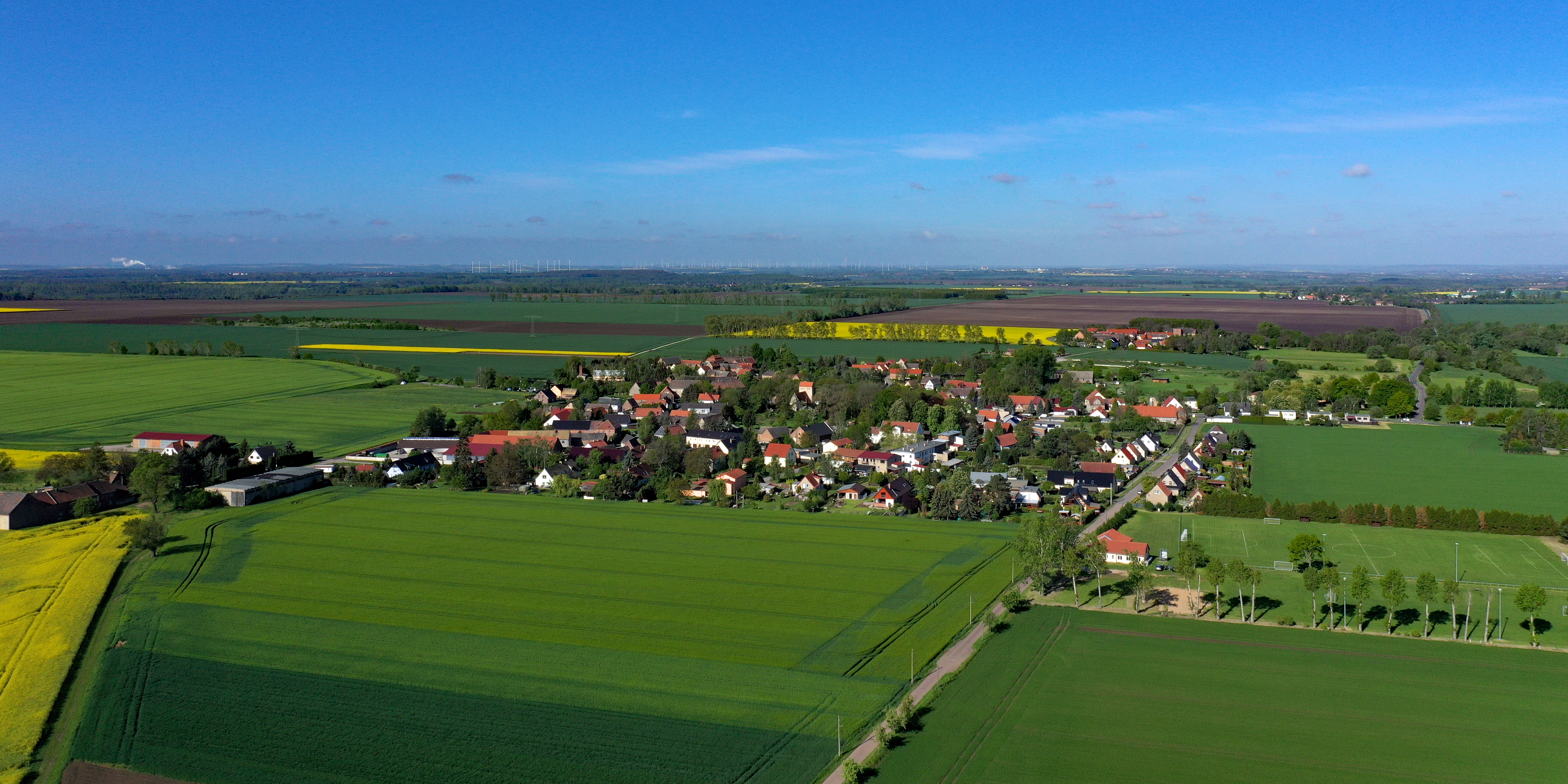 Großgörschen (Lützen, Saxony-Anhalt, Germany)